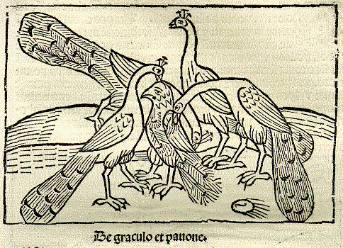 Woodcut from 1501, illustrating Esop's fable The Jackdaw and the Peacocks. From Sebastian Brant: Esopi appologi sive mythologi: cum quibusdam carminum et fabularum additionibus Sebastiani Brant. Jacob Wolff von Pfortzheim, 1501.